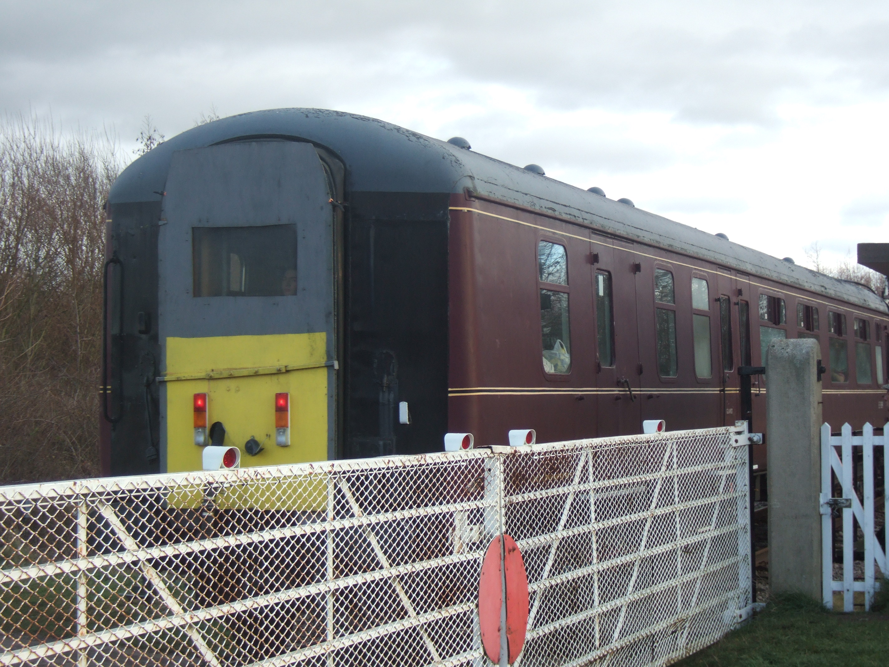 9389 being pushed past Asher Lane crossing